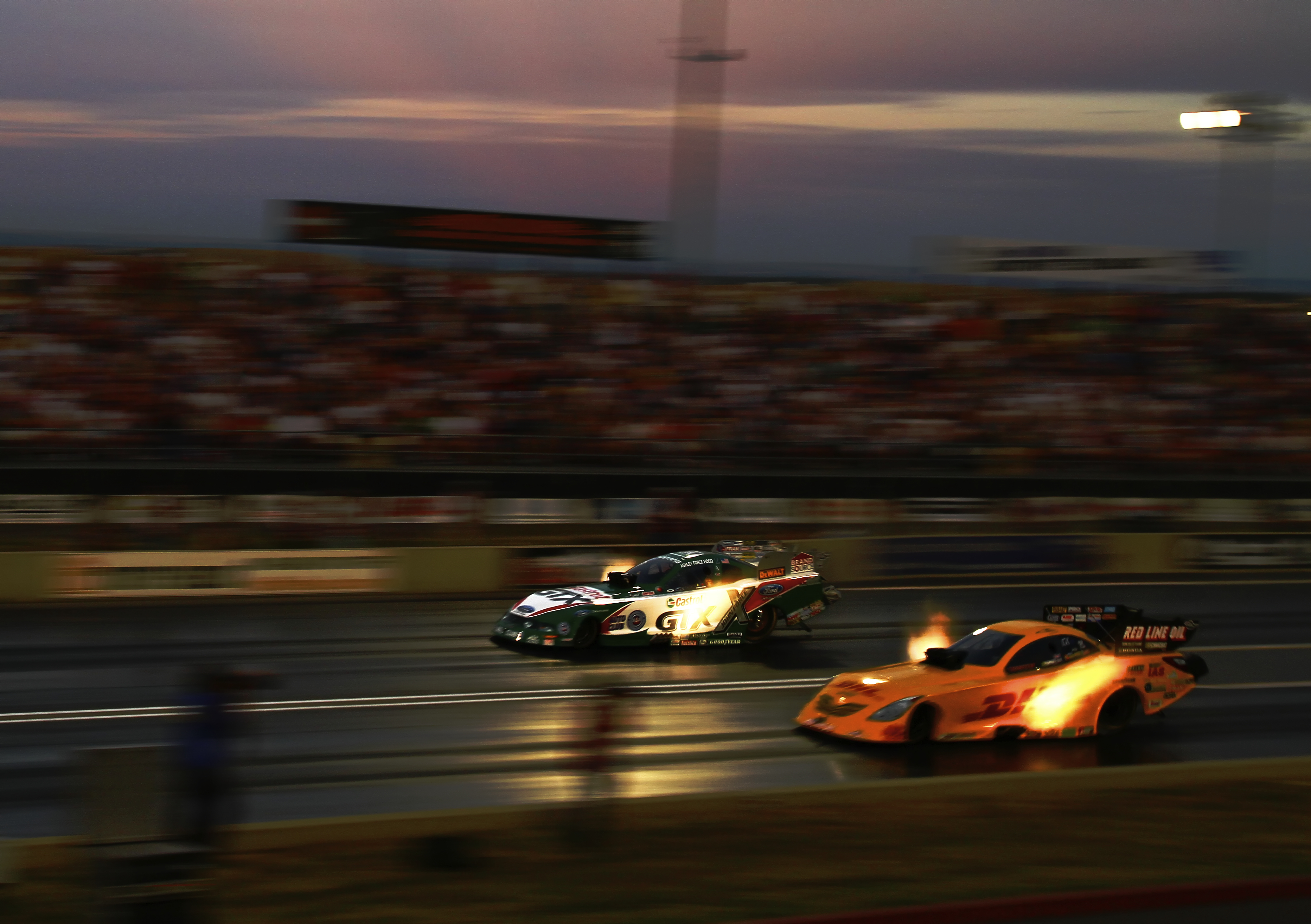 Taken from Denver's Mopar Mile High NHRA National drag races a little while back. If anyone has never seen a Top Fuel race I seriously recomend it. Go drink beer, eat turkey legs, and get your inner hillbilly on! These beasts put out up to 10000 horse power! When you mix that with an exhause system that ends with the headers you get a (literally) mind numbing 120dB roar as they pass you by. Its freakin cool! For the nerds out there I was pretty amazed to find out that the exhaust from the headers creates up to 1000 pounds of downforce. Hot damn!